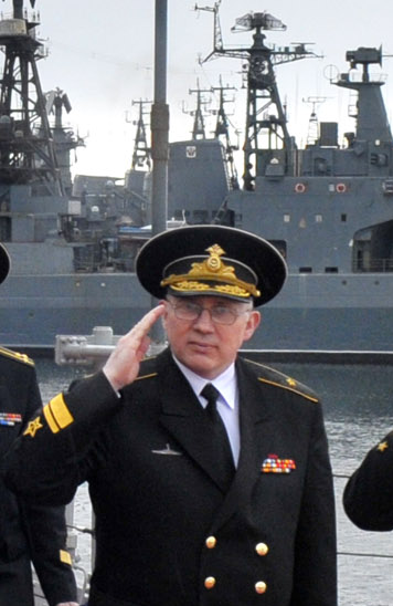 SEVEROMORSK, Russia (April 15, 2011) Chief of Naval Operations (CNO) Adm. Gary Roughead renders honors before departing the Russian Navy nuclear-powered cruiser Pyotr Velikiy during a visit to the Russian Northern Fleet. (U.S. Navy photo by Chief Mass Communication Specialist Tiffini Jones Vanderwyst/Released)